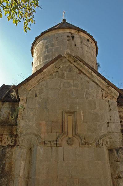 Haghartsin monastery. Armenia